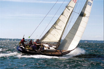 Yacht Acclaim (Previously Lutine when owned by Lloyds of London)- a Camper and Nicholson 55 (Nic55) during the Hoya Round The Island Race year 2000. Taken from a Nicholson 45